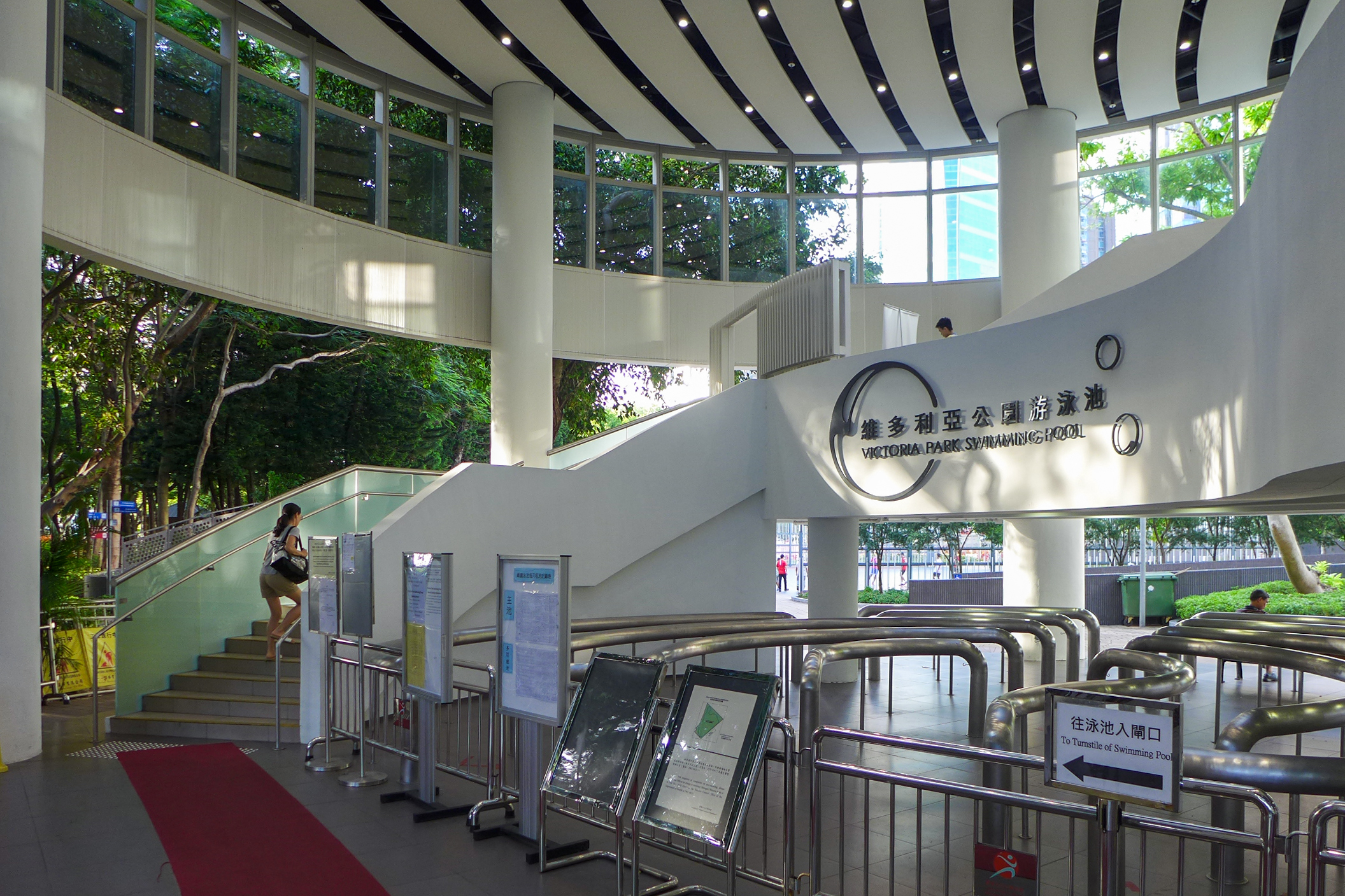 Victoria Park Swimming Pool Entrance